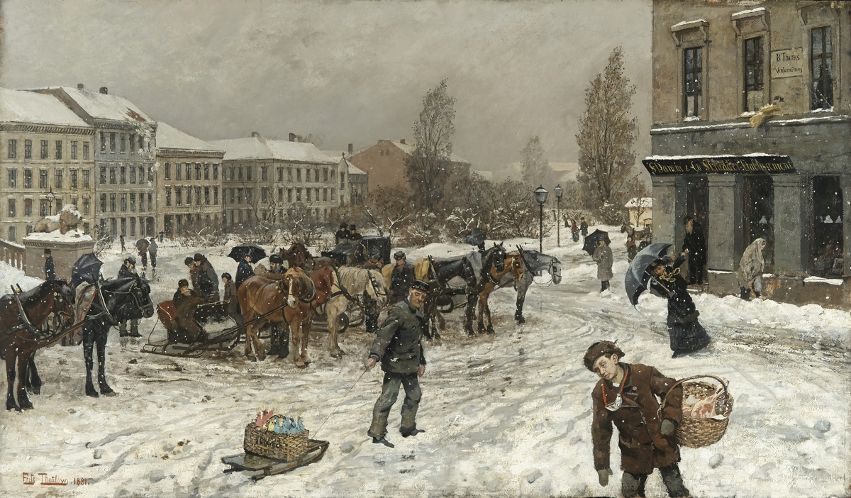 Depicted place: Stortings plass Depicted person: Christian Krohg – Norwegian painter